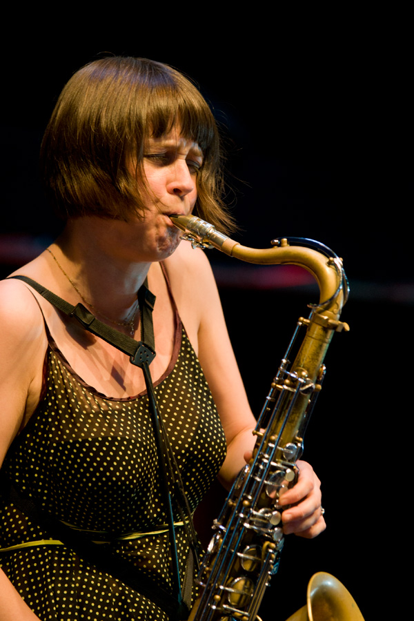 Ingrid Laubrock at moers festival 2012